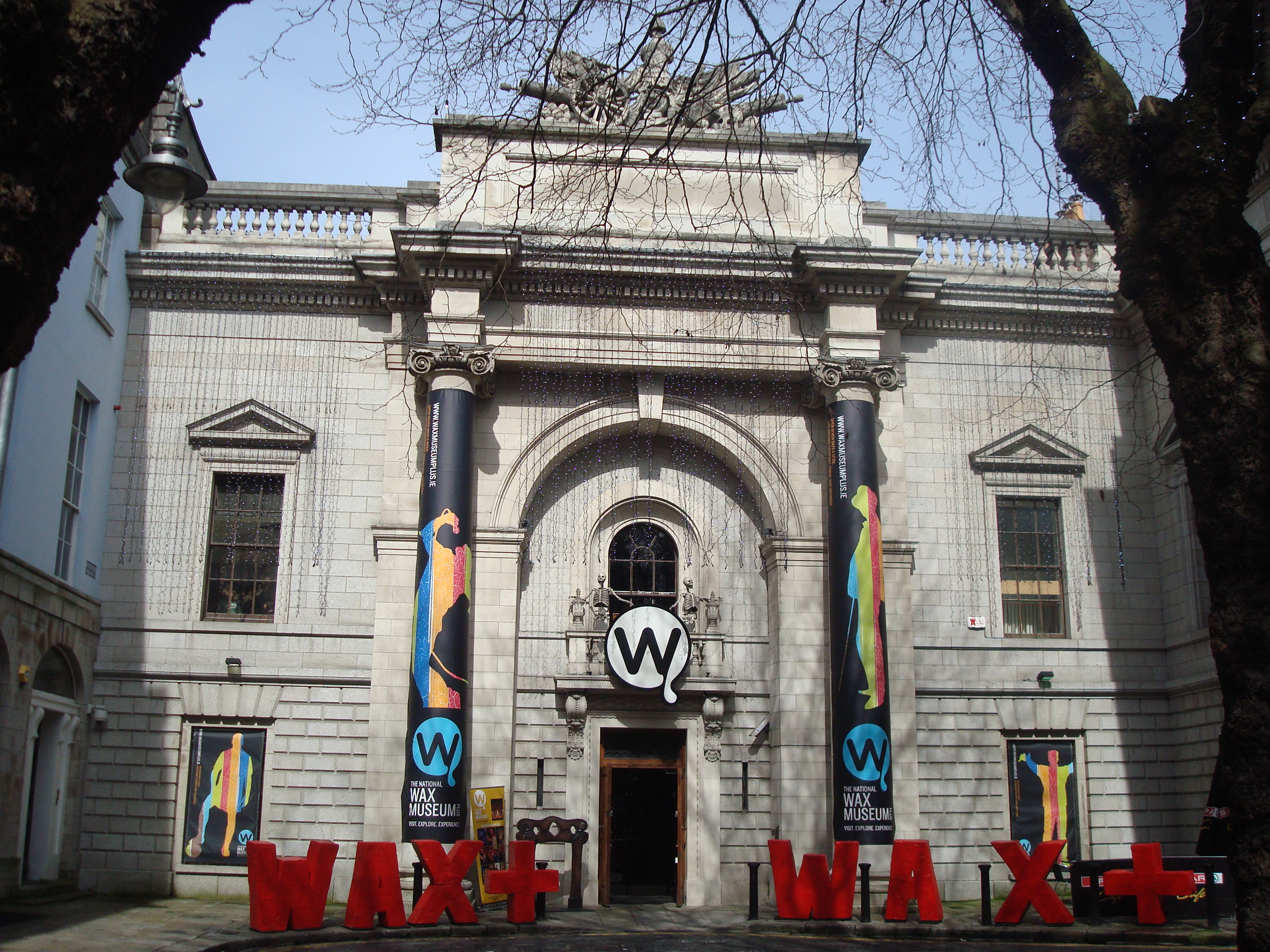 OLD LOCATIONThe National Wax Museum Plus, The Armoury, Foster Place, Temple Bar, Dublin